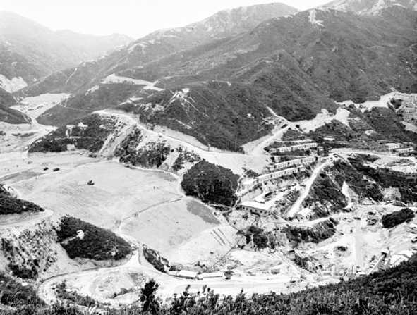 The Lower Shing Mun Dam is part of the Plover Cove Scheme, acted as a balancing reservoir